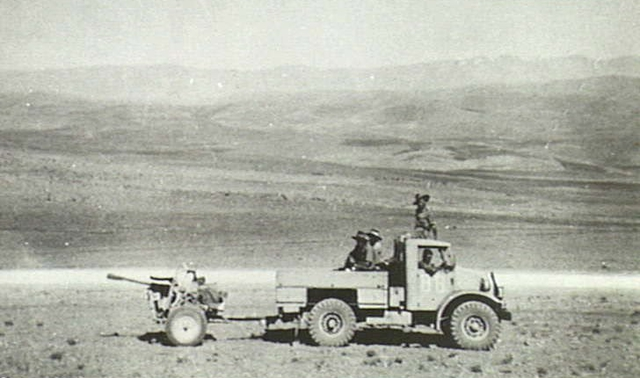 Gun crew from the Australian 2/1st Anti Tank Regiment in the Lebanon Mountains, northern Syria, December 1941